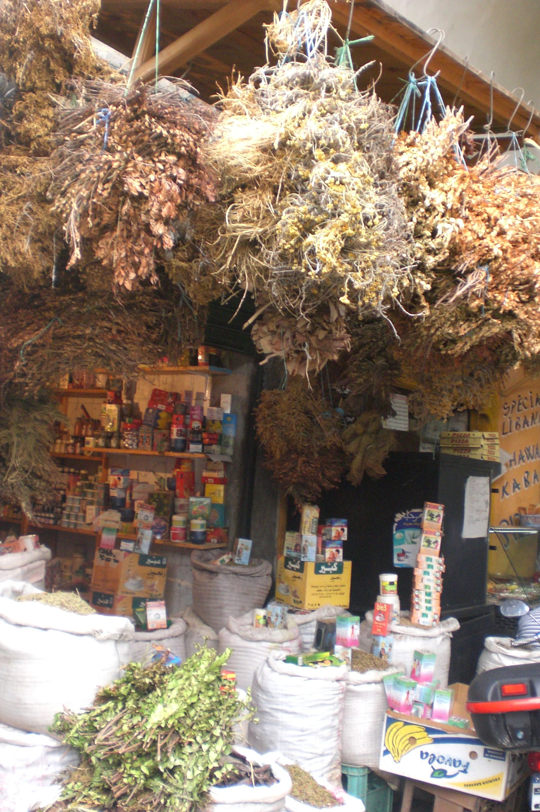 Souk El Blat in Tunis